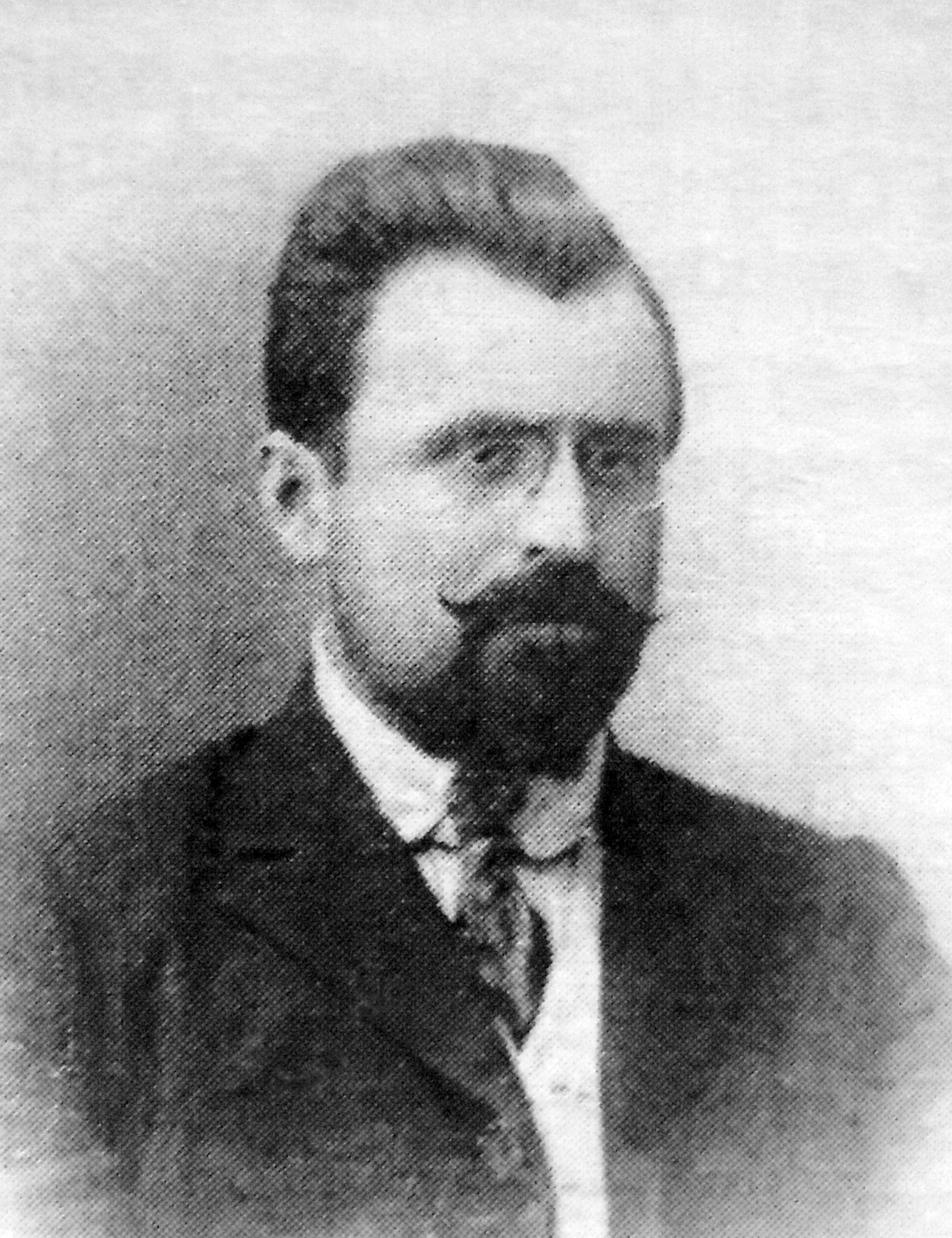 Photo of Petko Penchev.